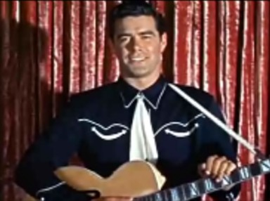 Cropped screenshot of Jeff Richards from the trailer for the film The Opposite Sex.